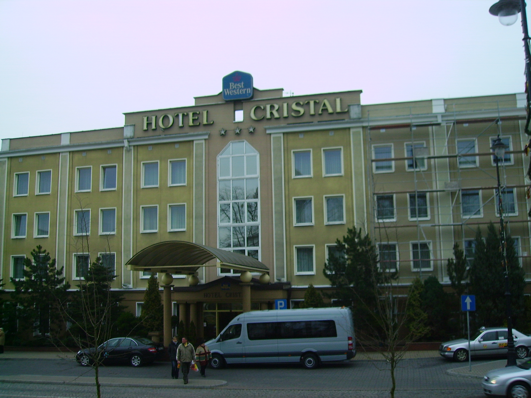 "Hotel Cristal" - Białystok, 3/5 Lipowa Street in Centrum (restaurant, bar, travel agencies).